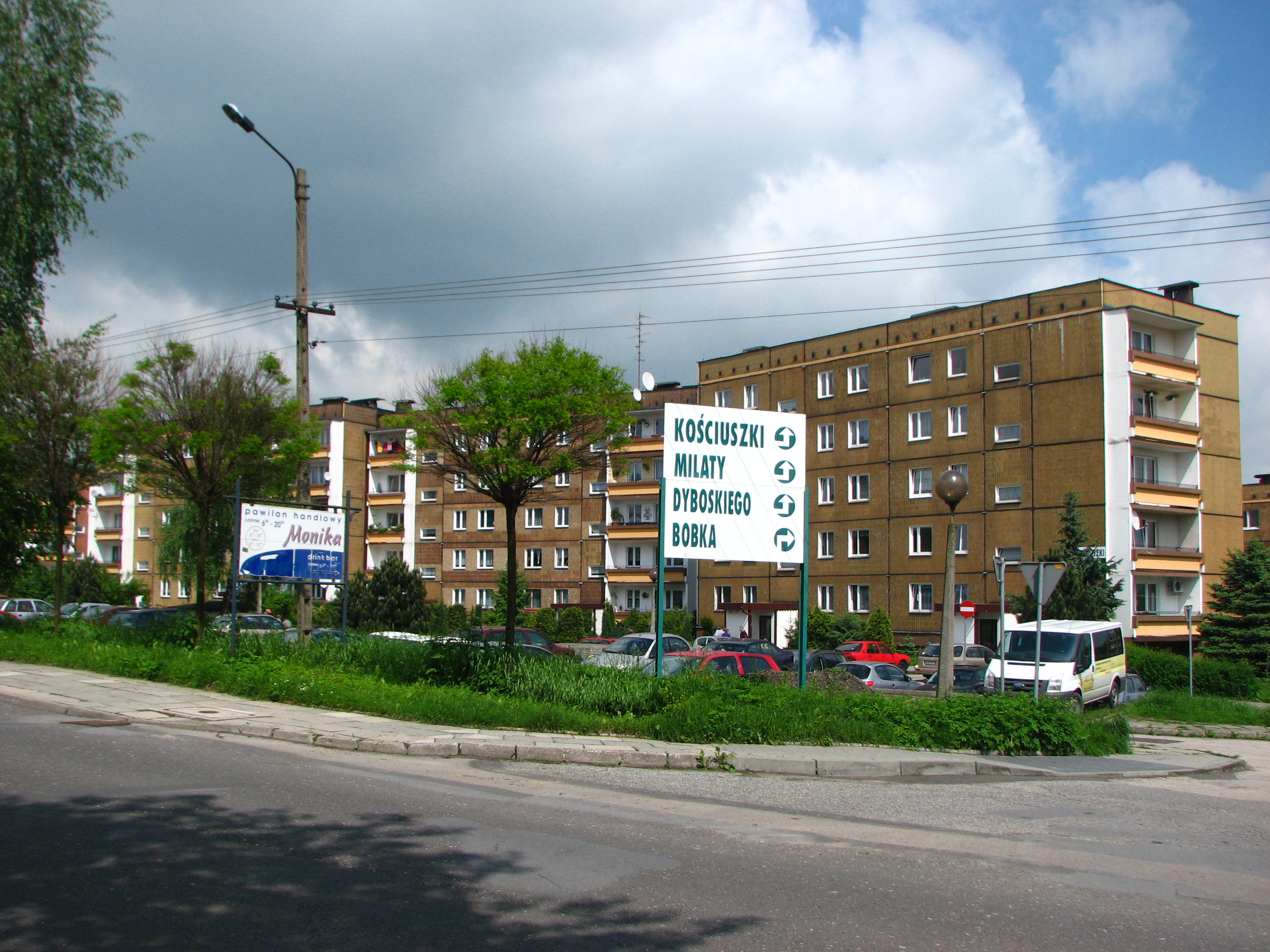 Bobrek West housing estate in Cieszyn, view from Kościuszki Street